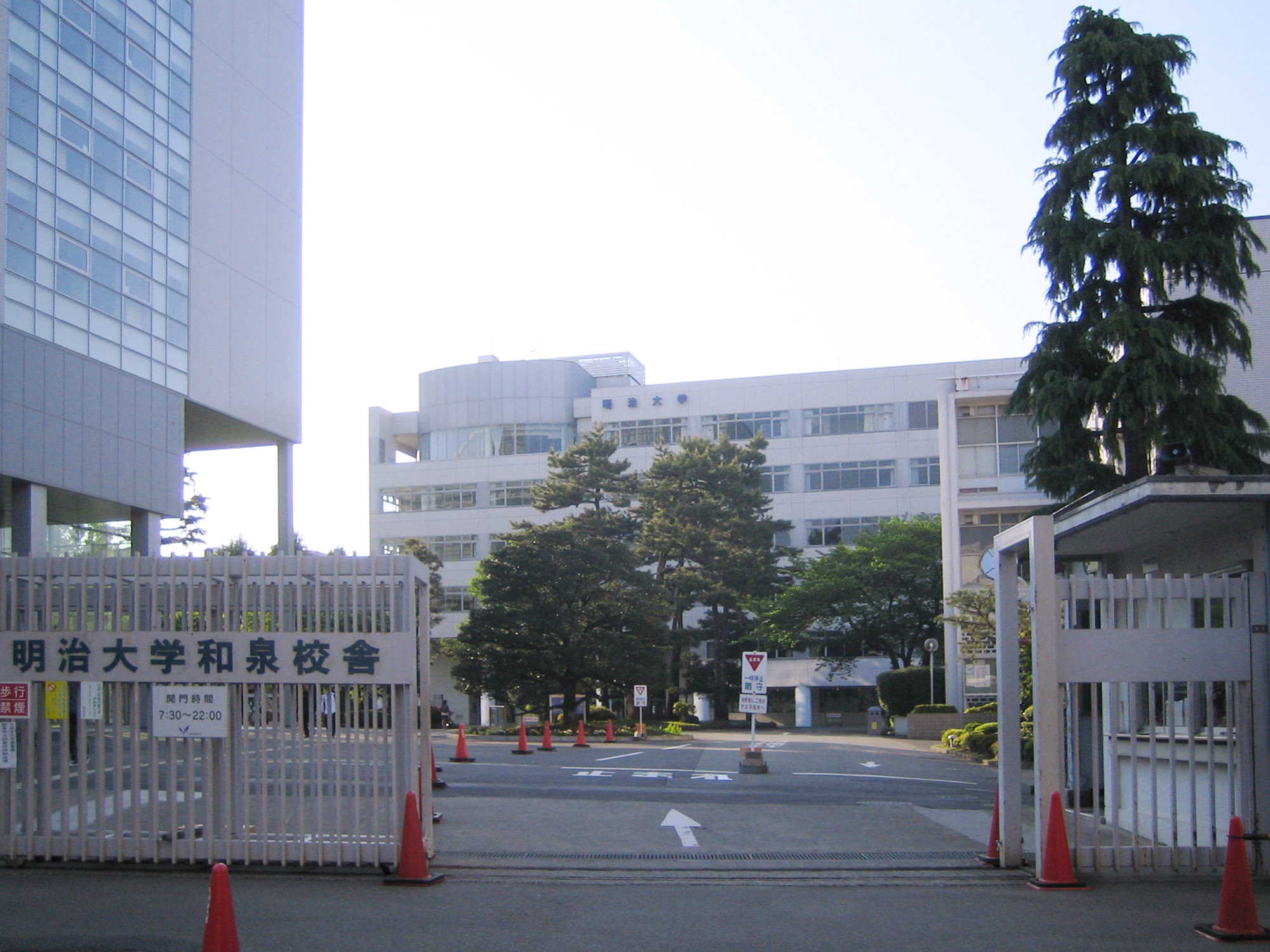 Meiji University Izumi Campus (明治大学和泉校舎), in Suginami, Tokyo, Japan